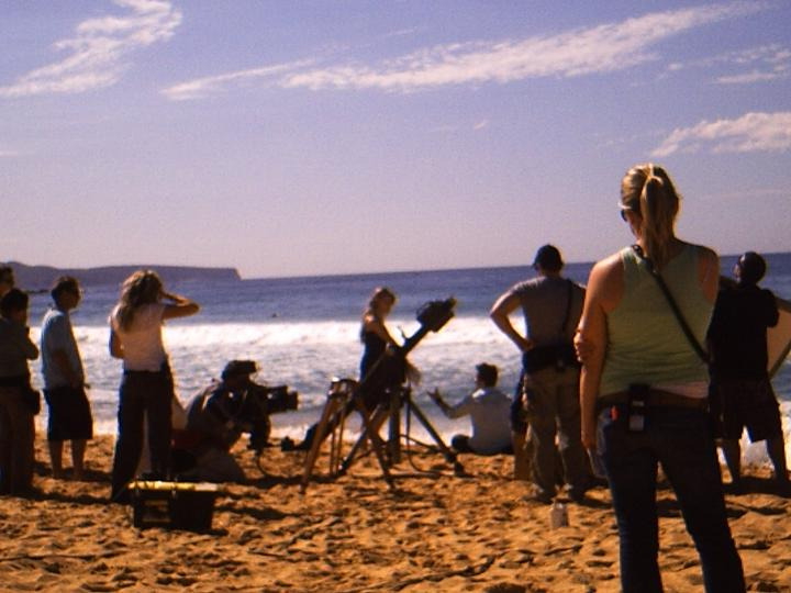 A photo of the filming of Australian soap opera Home and Away. Taken by cls14 in August 2006.